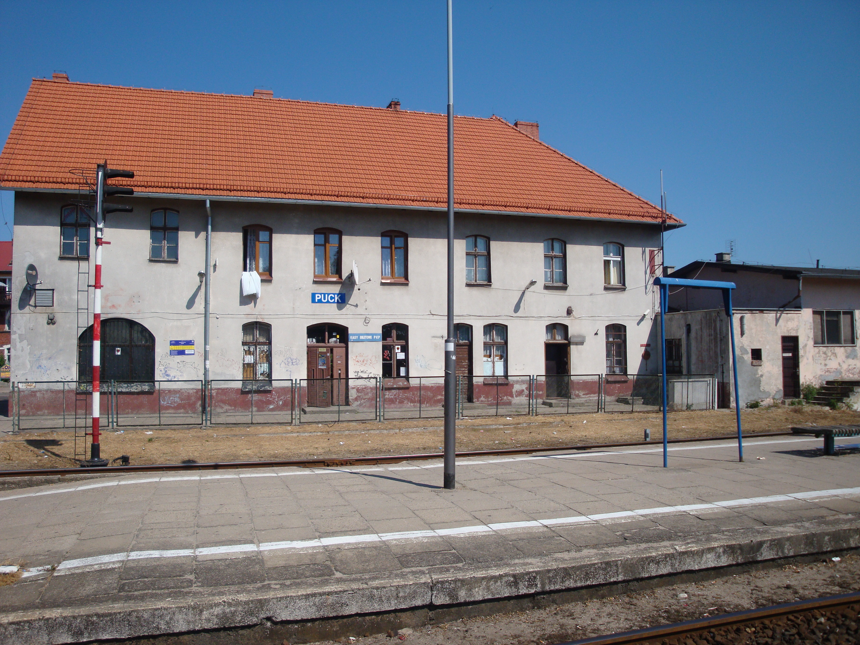 Puck-city in Pomeranian voivodeship, Poland